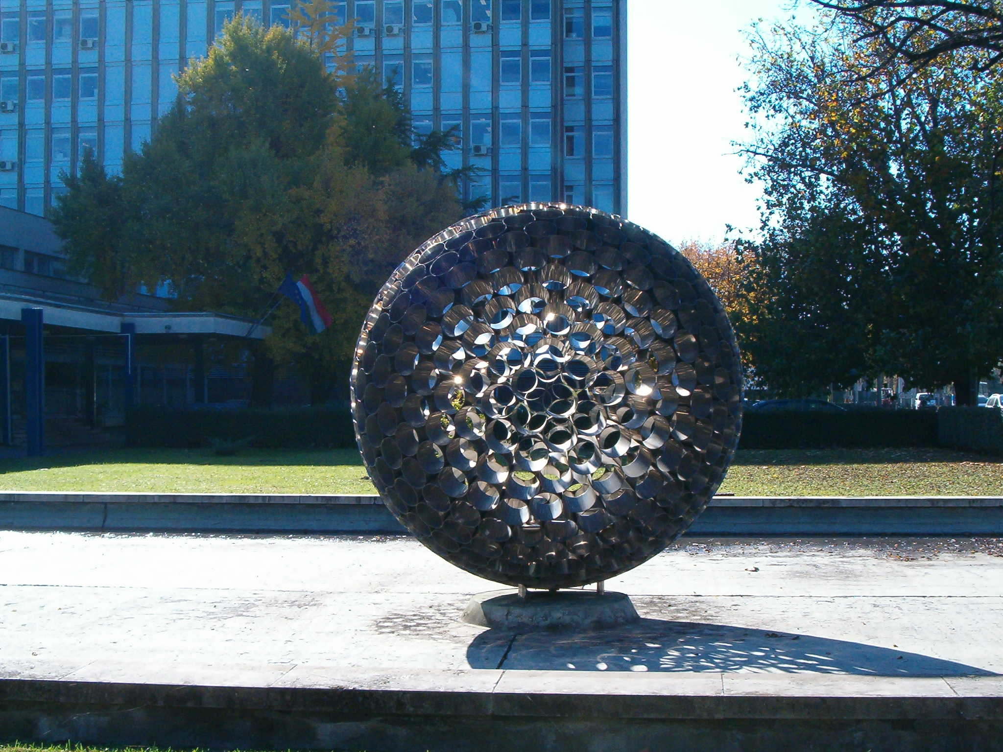 The Biological Research Centre (BRC), Hungarian Academy of Sciences. - Szeged, Temesvári krt. 62